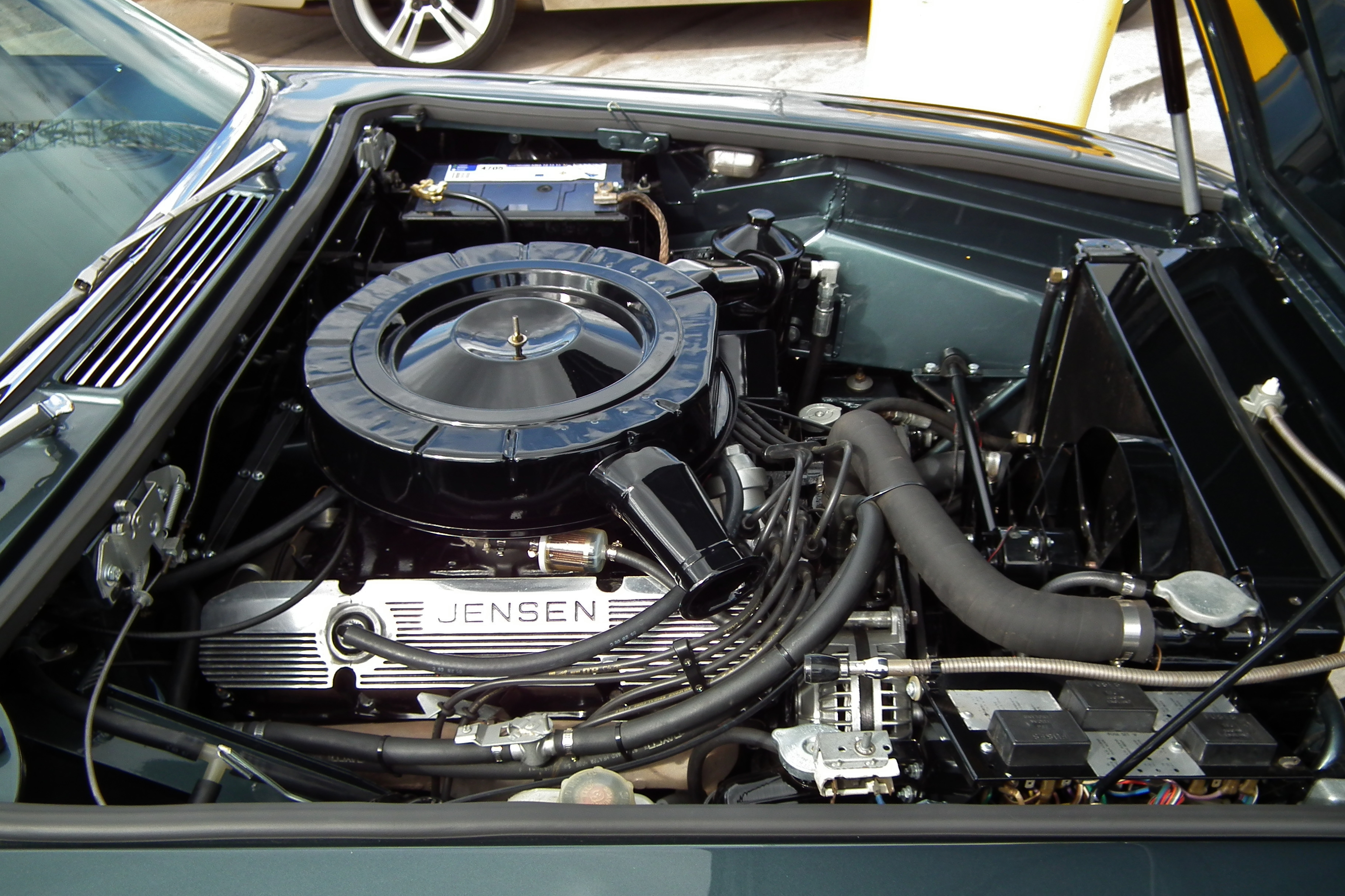 1971 Jensen Interceptor II coupe engine. Taken at Shannon's Eastern Creek Classic 2011, held at Eastern Creek Raceway Sydney.